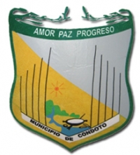 Sign of Condoto, Chocó, Colombia.